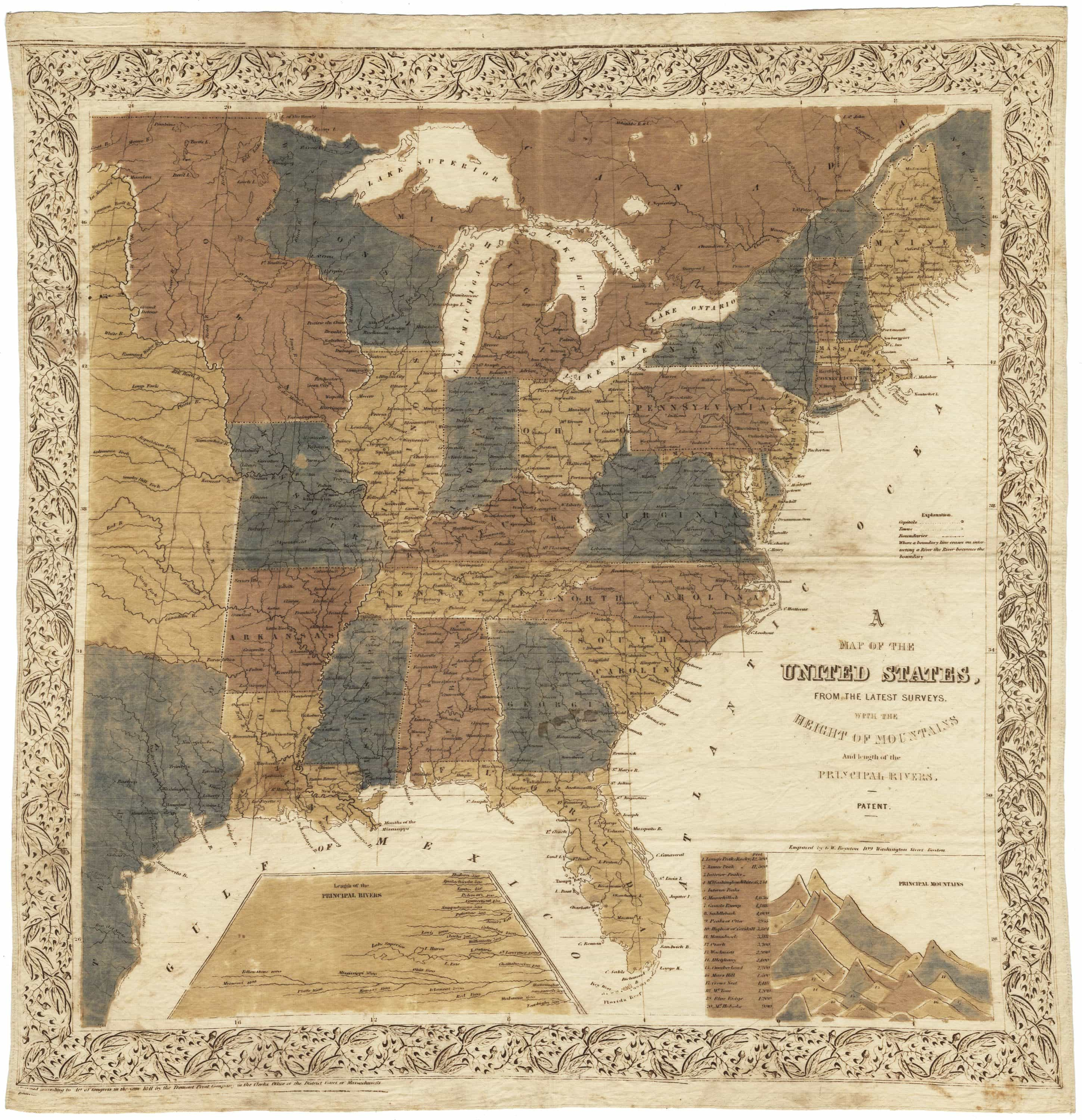 Map of the United States. Cloth, 2898x3000 mm. Engraved by George W. Boynton. Printed by Joseph Willard Tuttle.